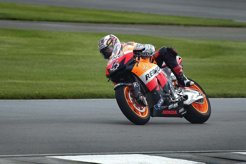 Andrea Dovizioso. Race winner 2009 British MotoGP